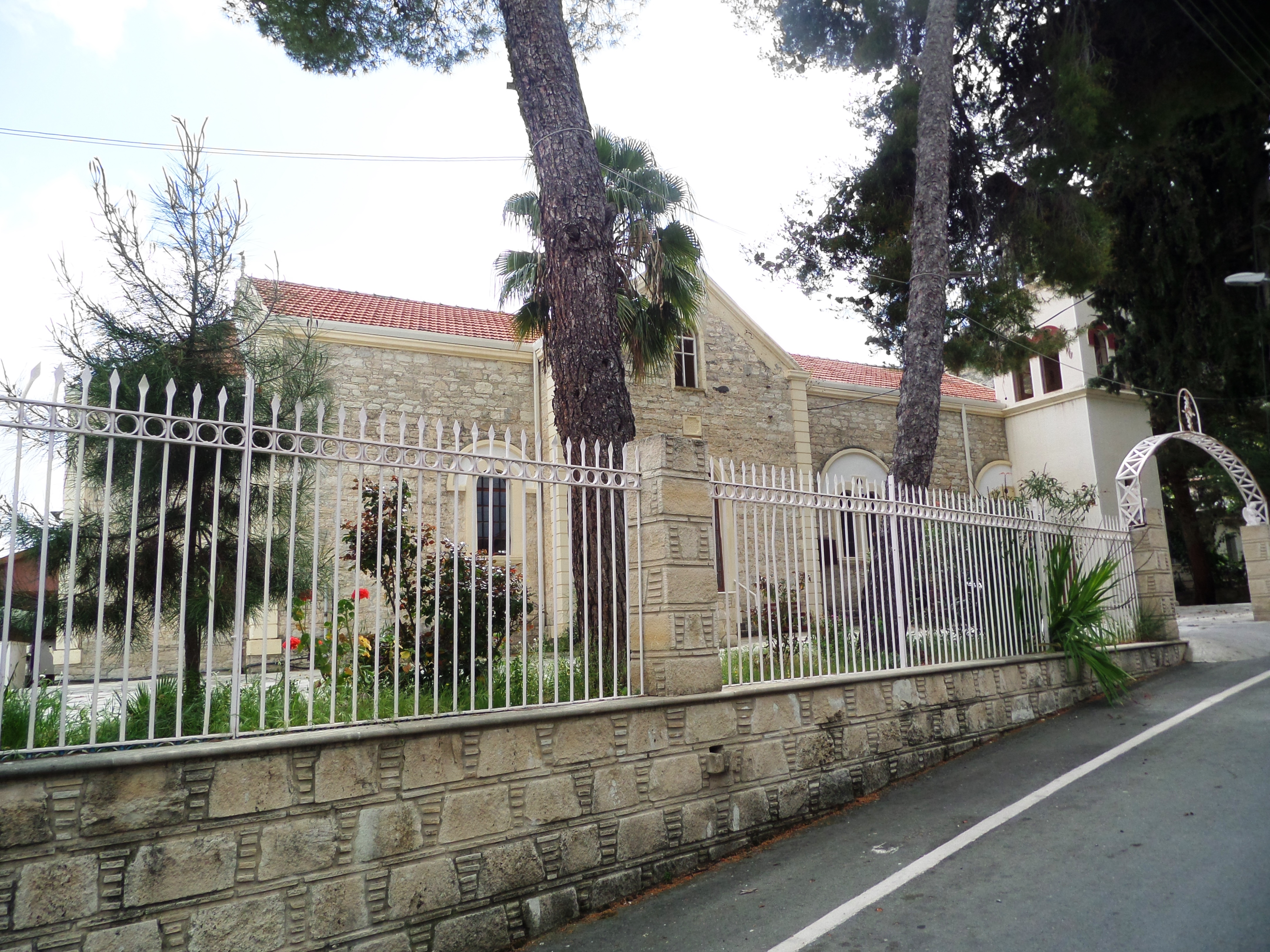 Saint George church at Agios Georgios, Limassol.